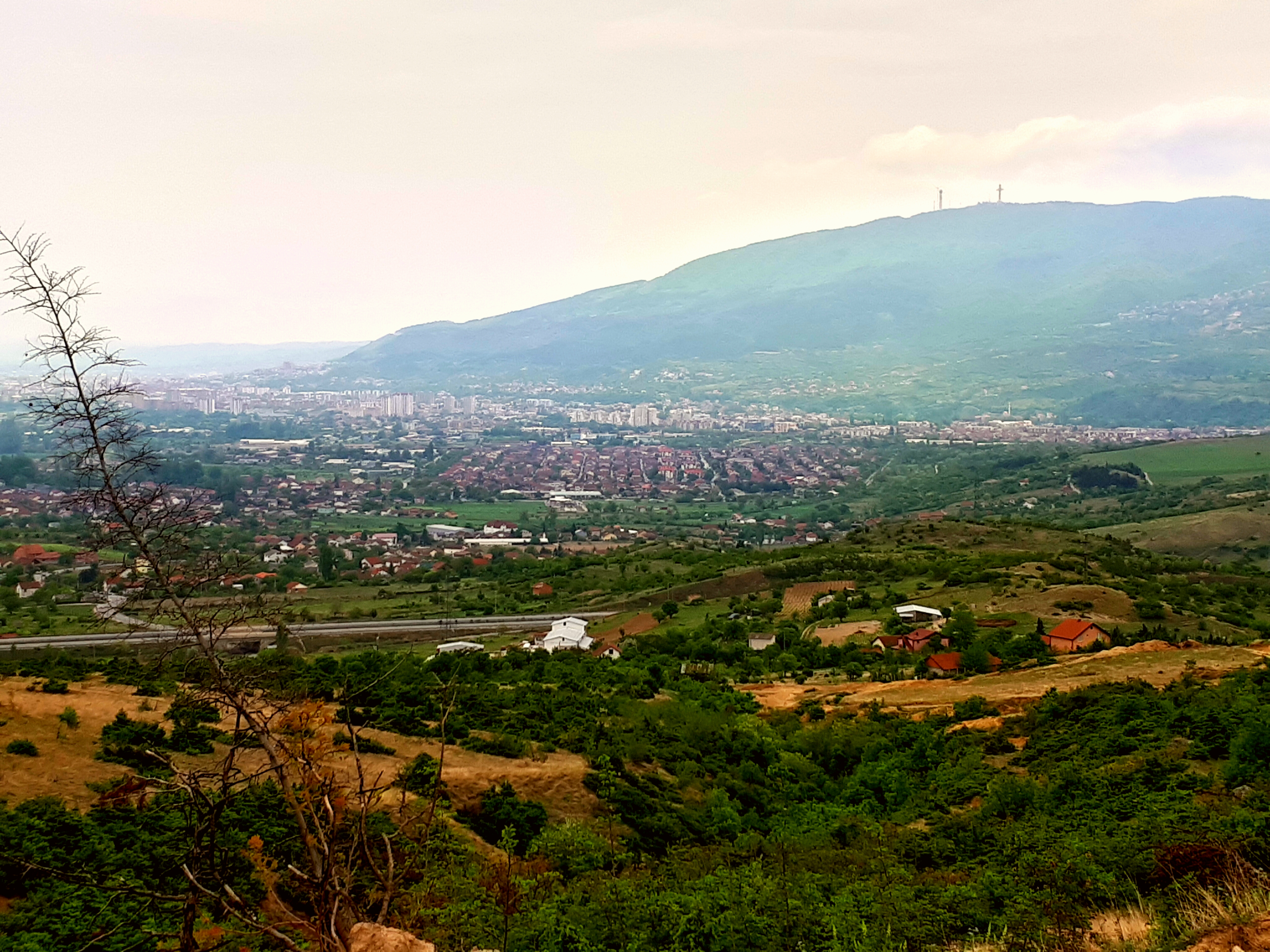 View of the Skopje suburb Dame Gruev